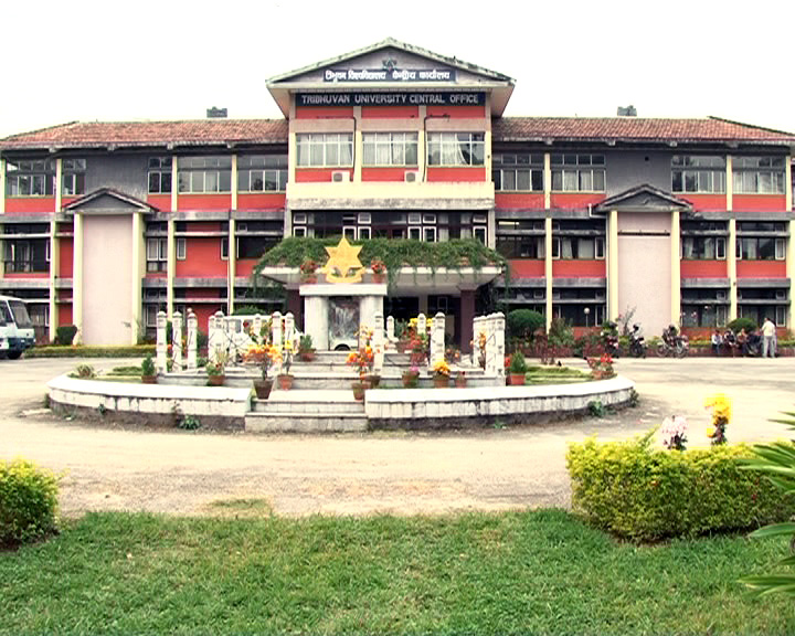 TU